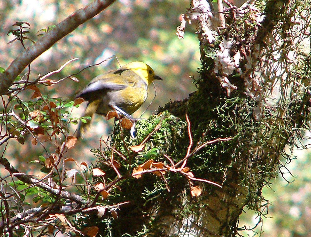 Yellowhead or Mohua (Mohoua ochrocephala) on Silver Beech, Routeburn Track